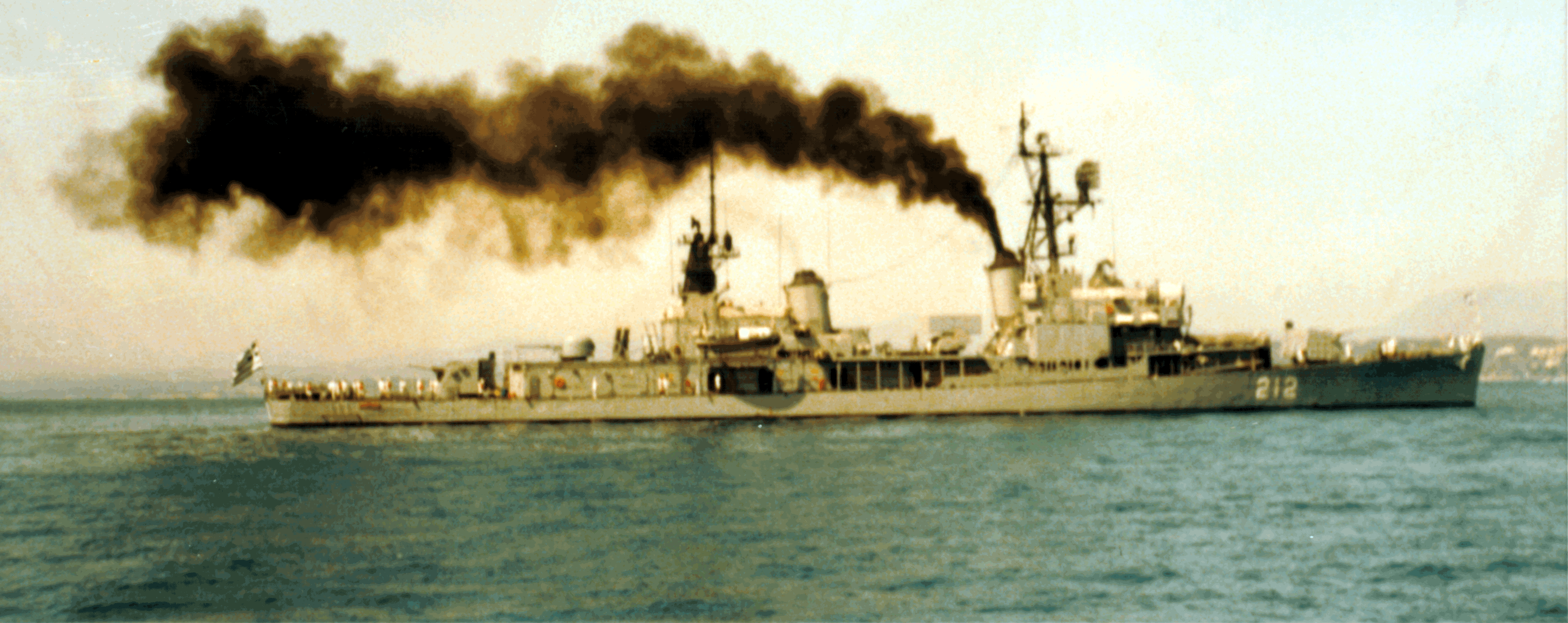 FRAM I destroyer Kanaris, D-212, of the Hellenic Navy (the former USS Stickell, DD-888).